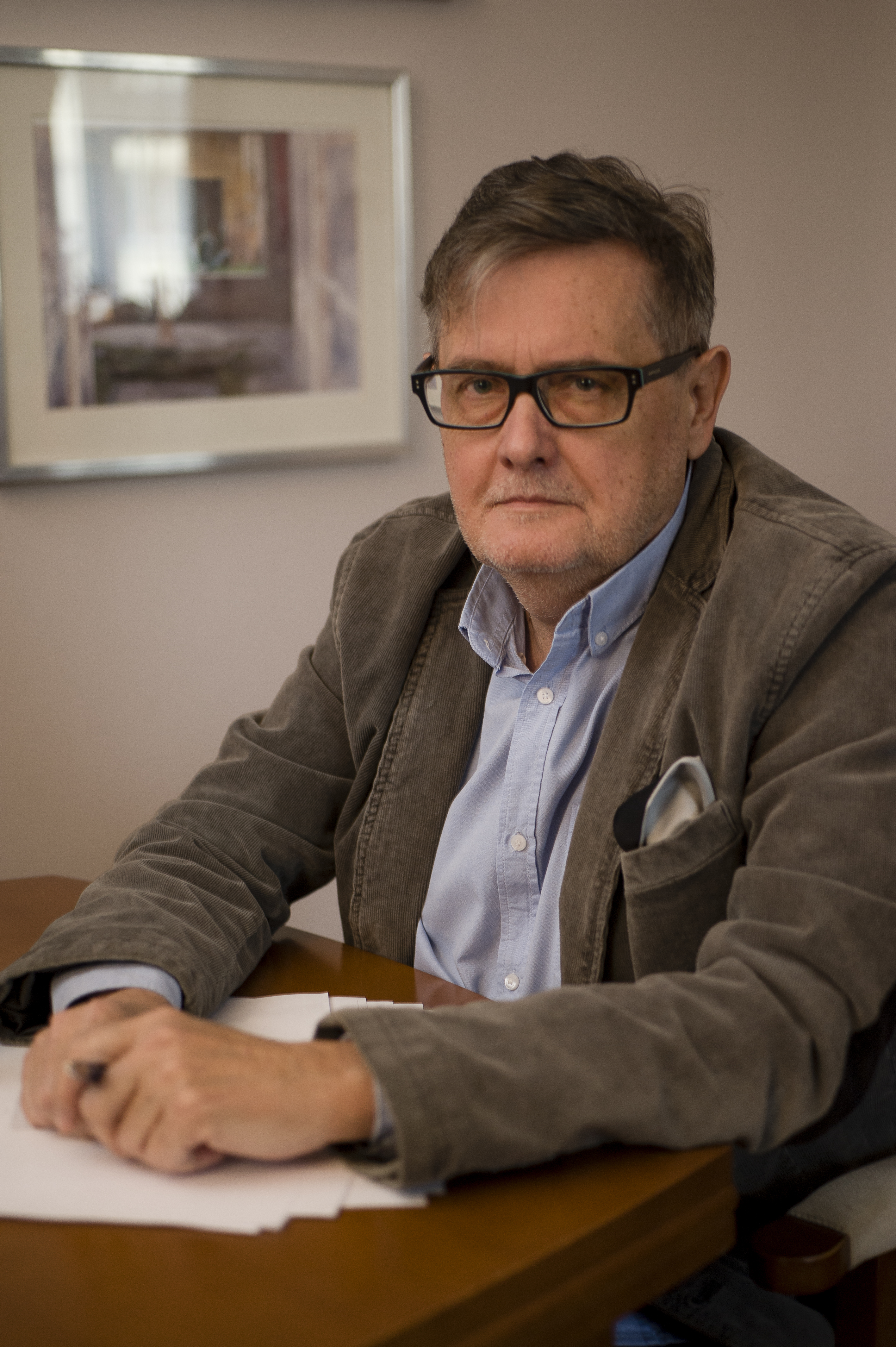 Ryszard Lenc